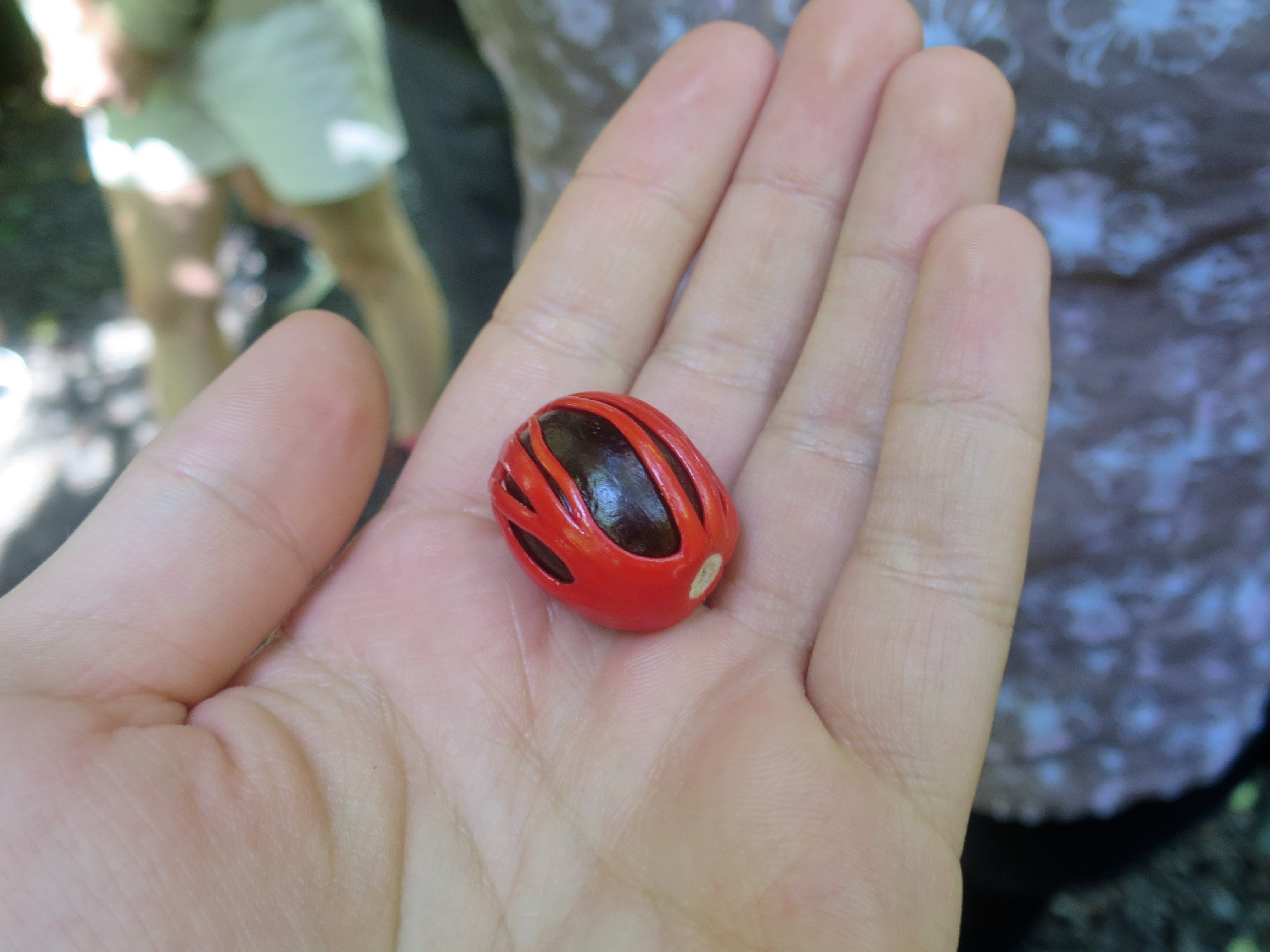 Nutmeg and its aril.